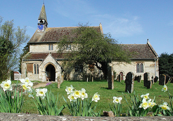 Church of England parish church of St Edmund and St George, Hethe, Oxfordshire, viewed from the south.